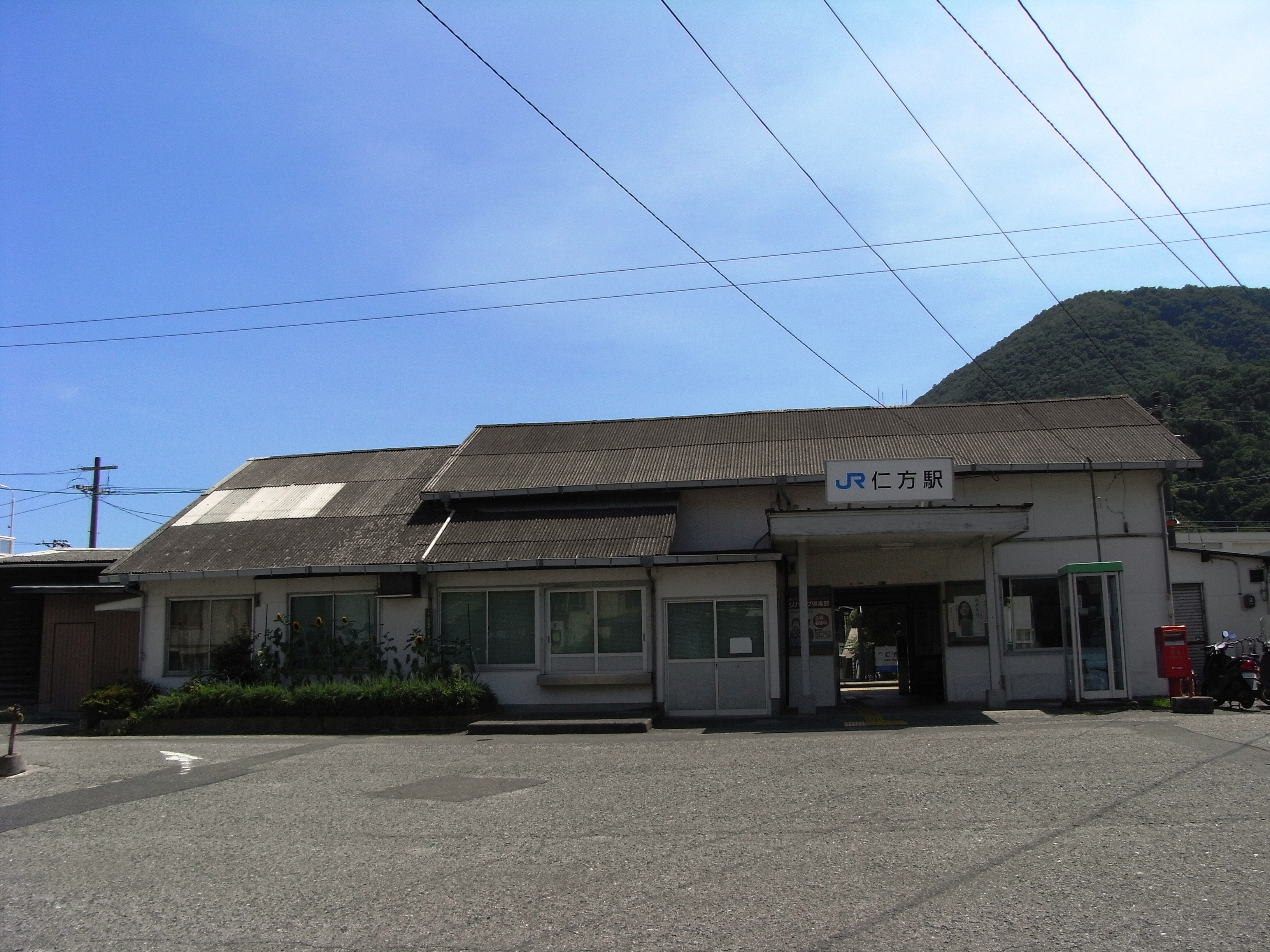 仁方桟橋Nigata Station on the JR Kure Line in Kure, Hiroshima Prefecture, Japan.